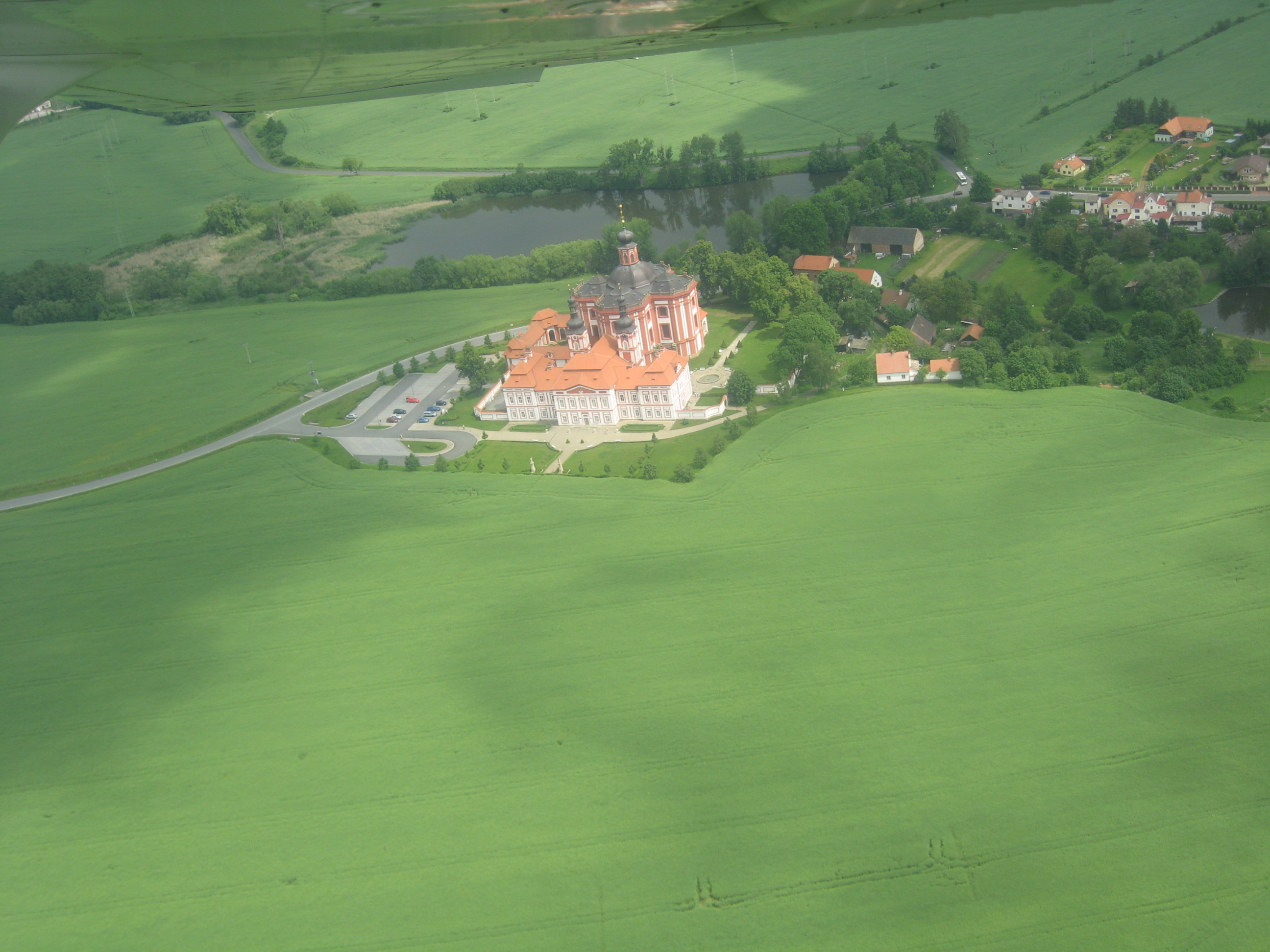 Aerial view of Mariánský Týnec